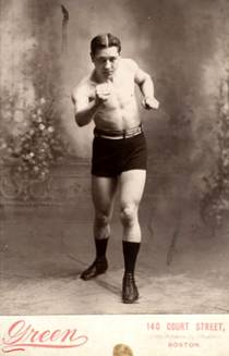 Billy Honey Mellody, welterweght champion of the world between 1906-1907